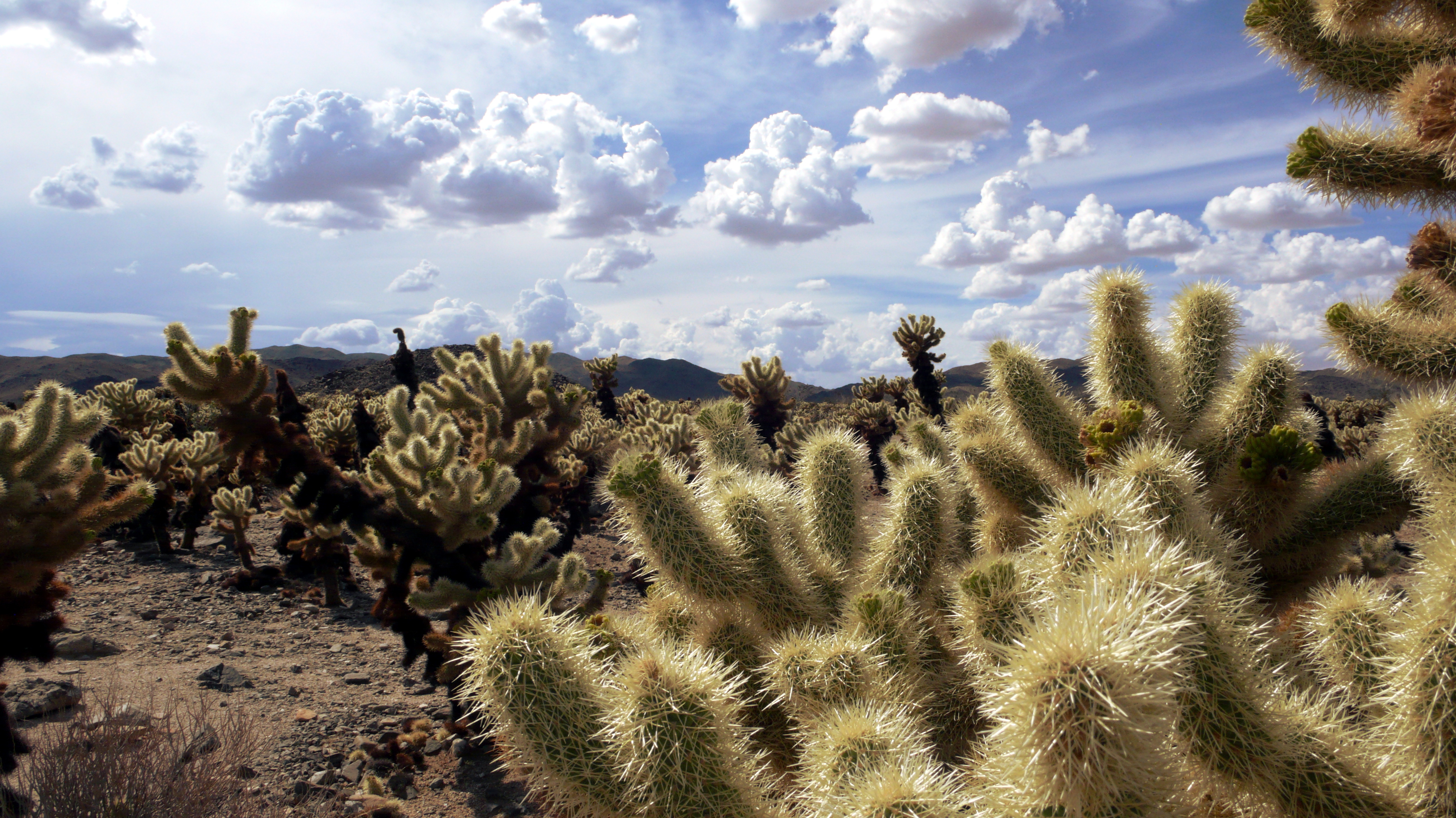 Chollas with Clouds.